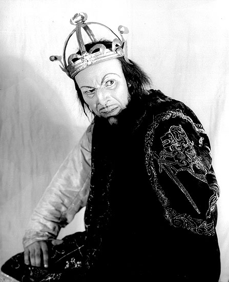 Azerbaijani actor Abbas Mirza Sharifzade play Macbeth. Director A. Tuganov.